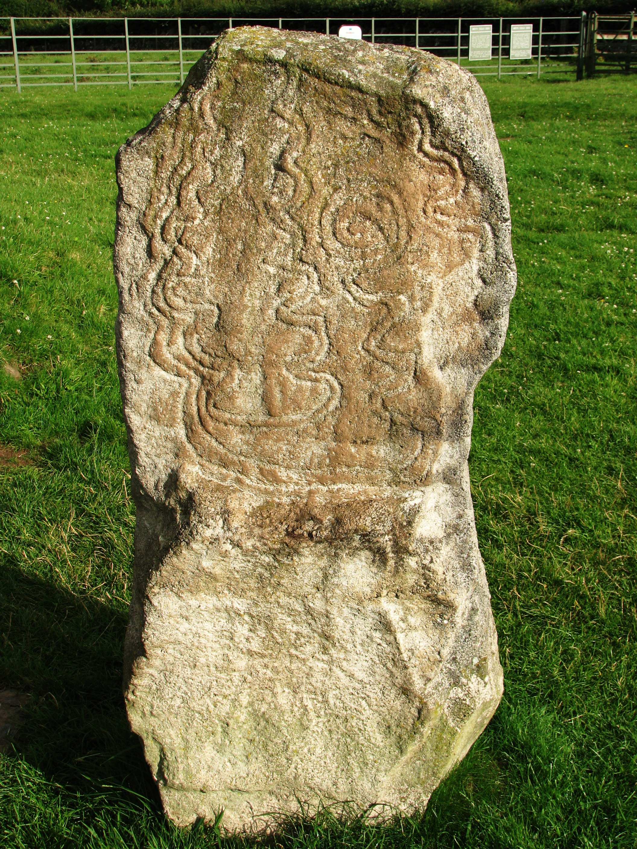 This is the decorated standing stone outside the southeast side of the Bryn Celli Ddu burial mound.